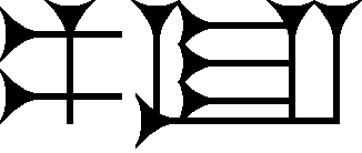 Cuneiform sign SIPA (PA-LU)